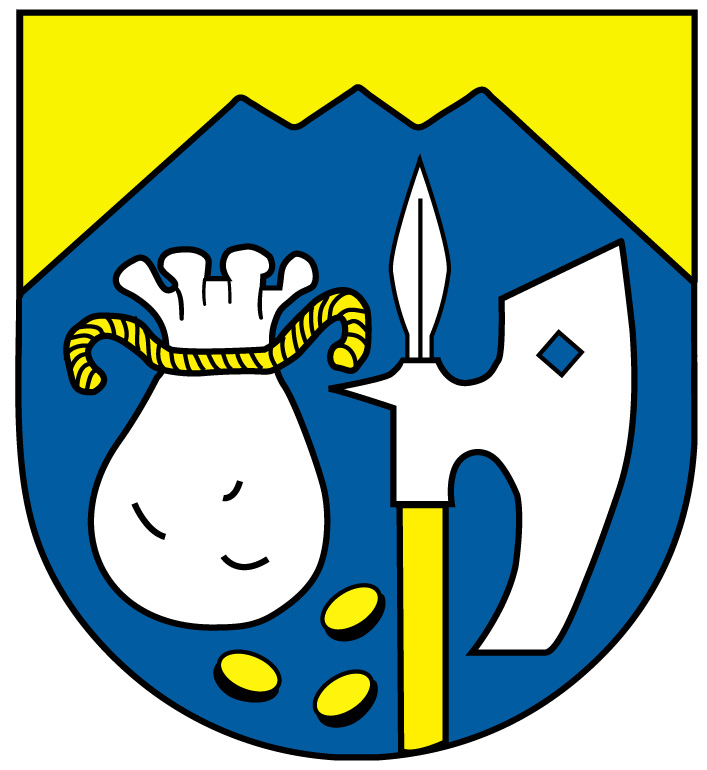 Myto pod Dumbierom